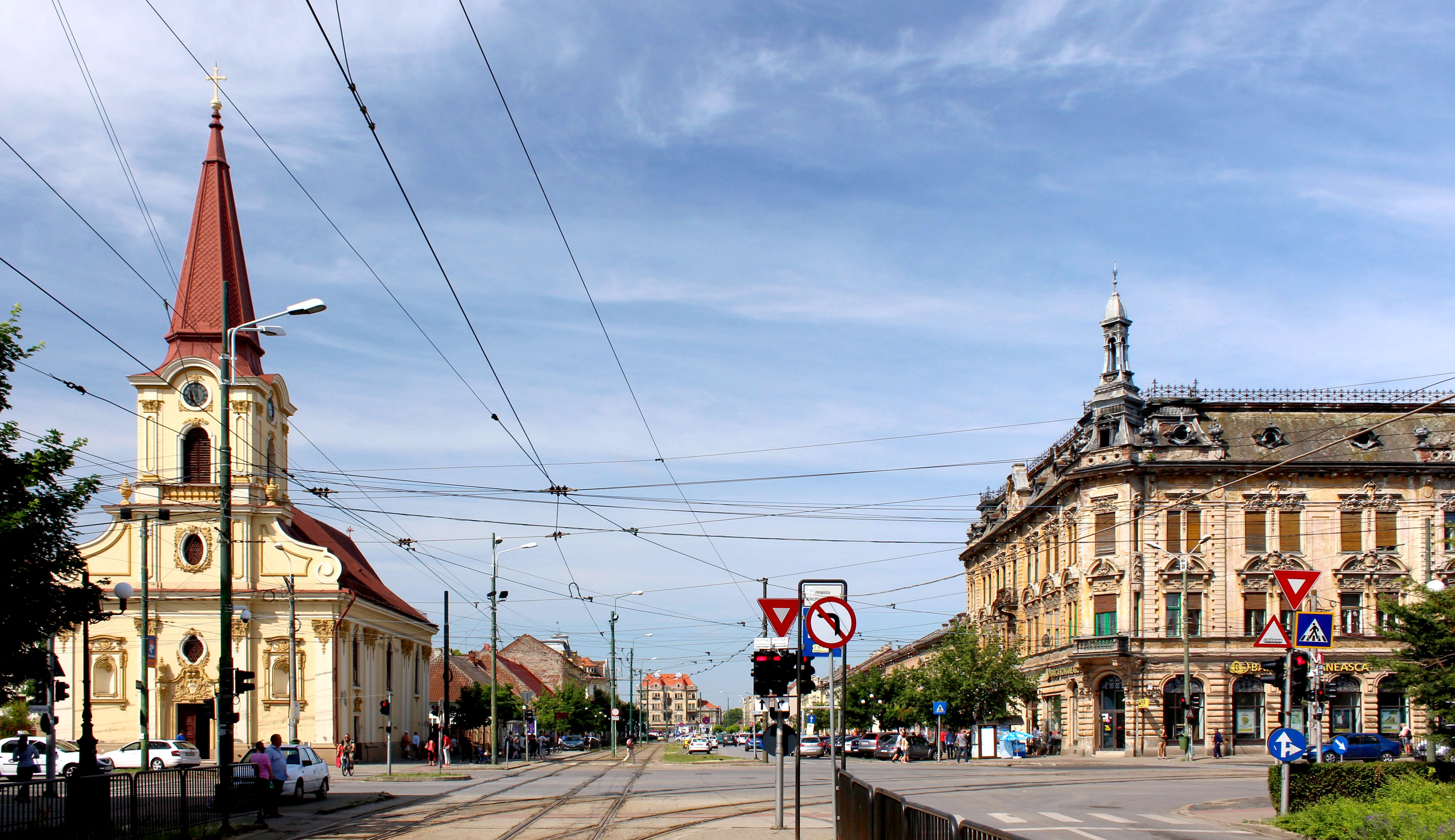 Timișoara, Iosefin, King Carol I. Boulevard, 2018